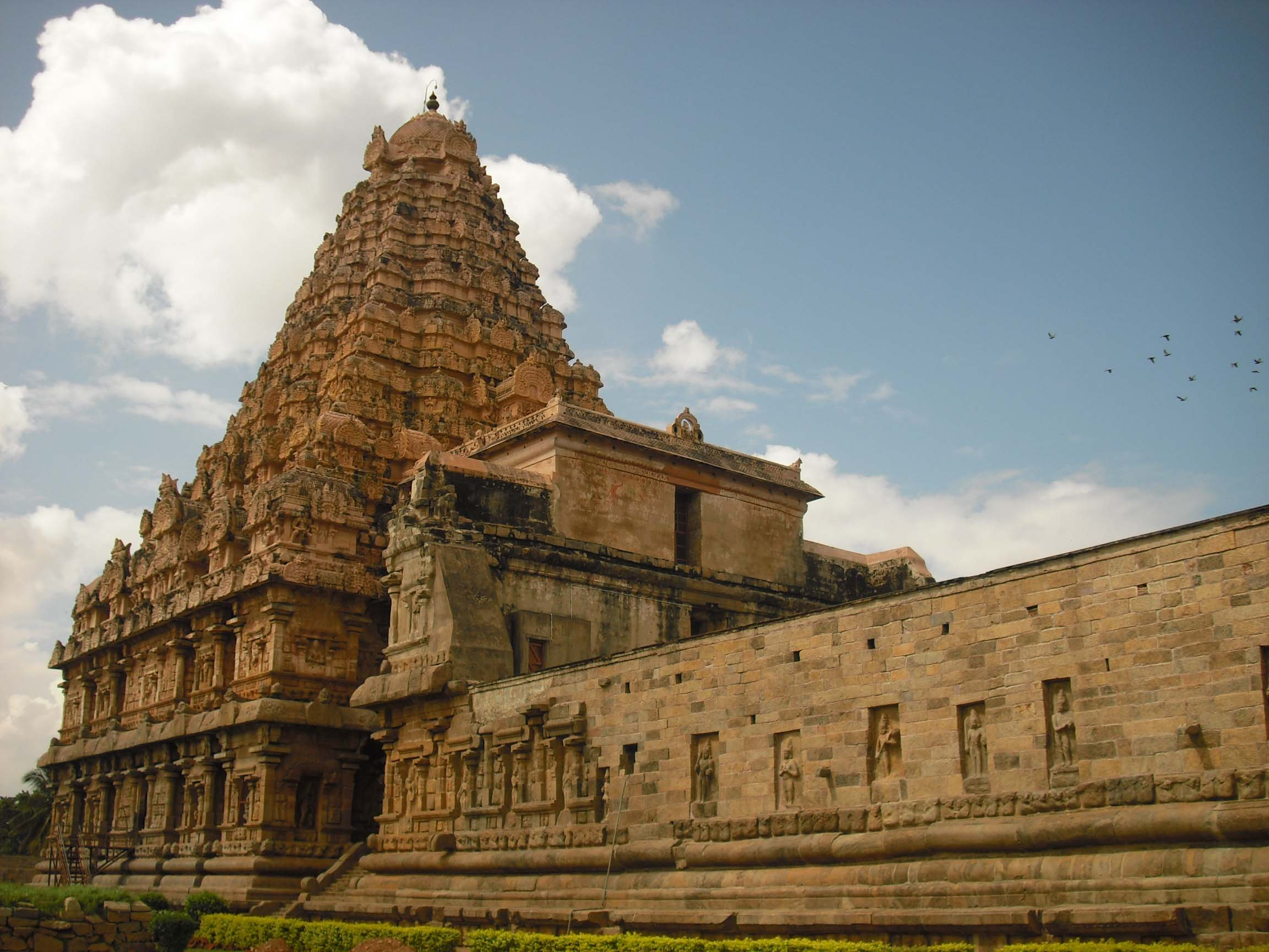 Brihadisvara Temple